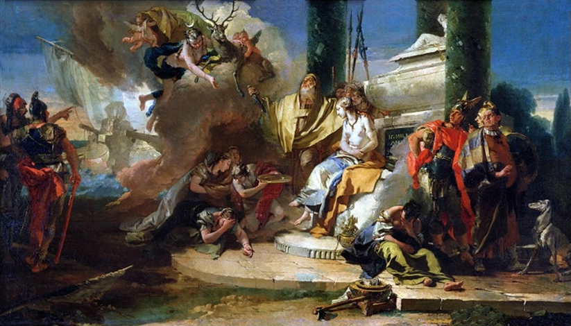 Height: 65 cm (25.5 in); Width: 112 cm (44 in) dimensions QS:P2048,65U174728;P2049,112U174728